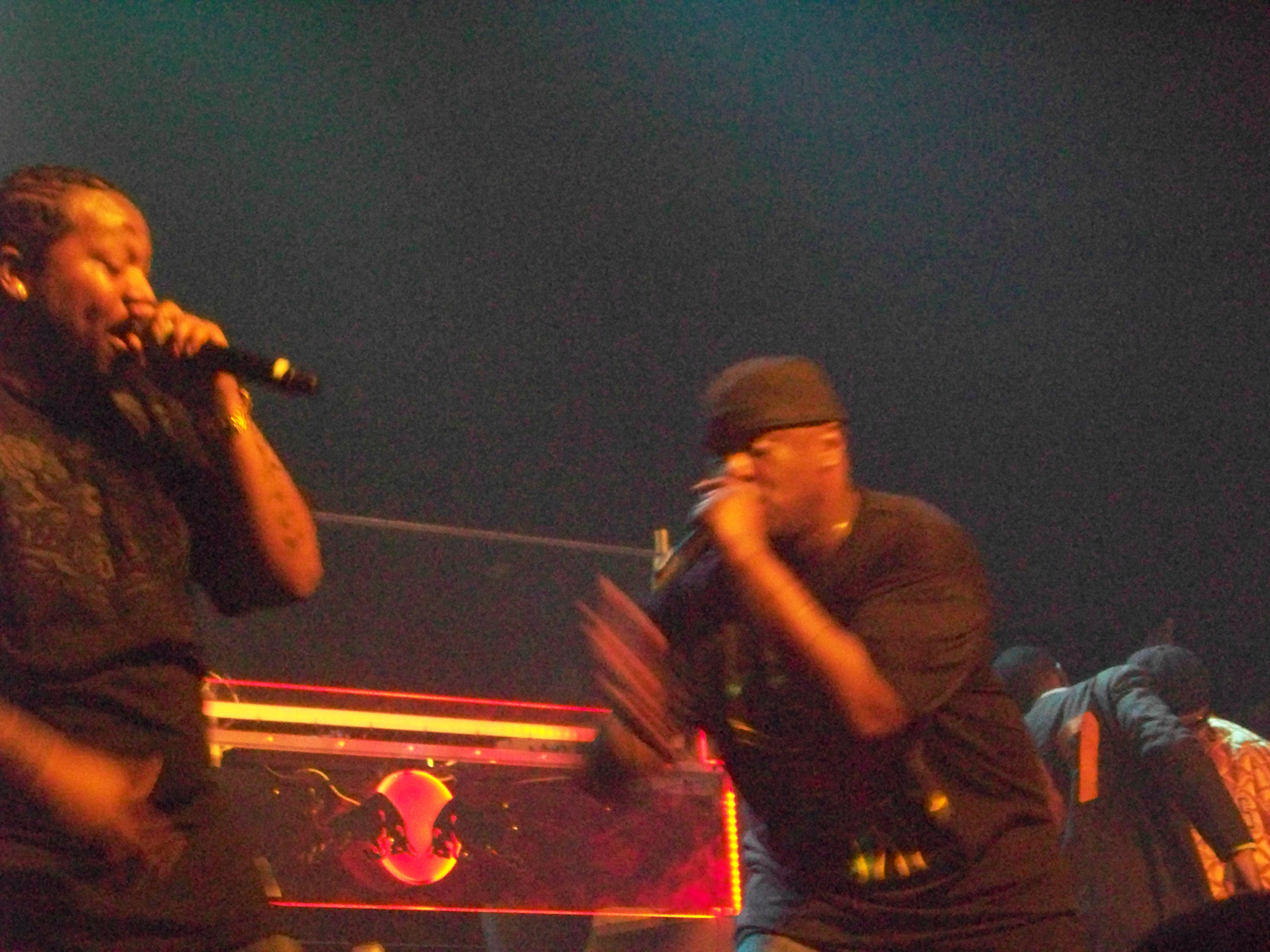 Hip hop group Little Brother performing in Atlanta, Georgia.